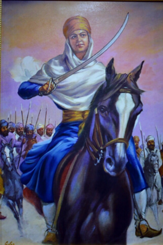 Mai Bhago was the first woman in sikh history to take up arms to fight opressors.